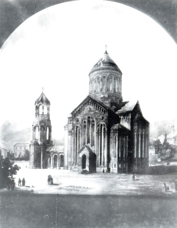 Budagovski (or Saint Thadeus and Bartholomew cathedral) cathedral of Armenian Apostolic Church in Baku: Main facade